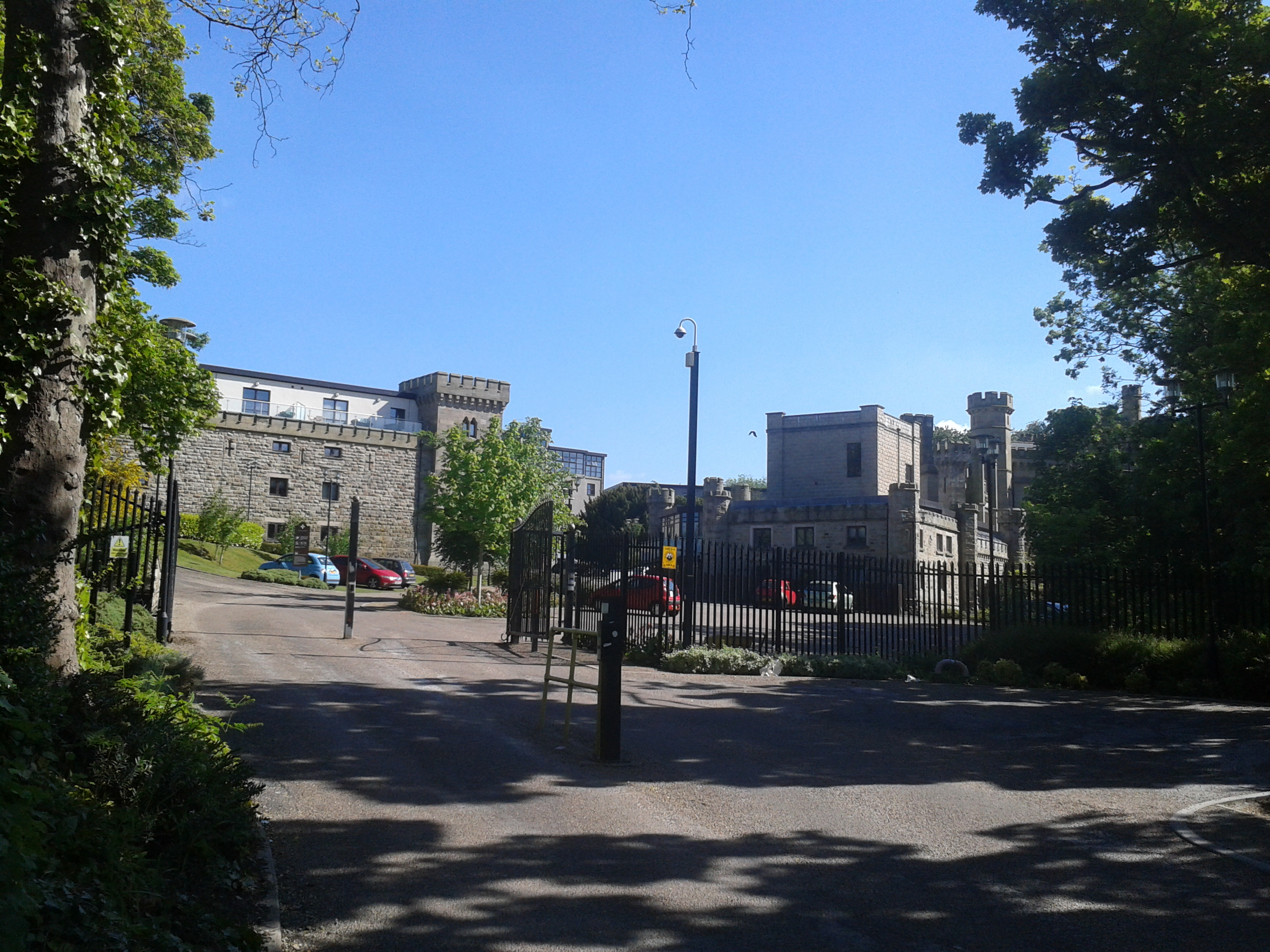 View of buildings at Queen's Tower in the Norfolk Park district of Sheffield